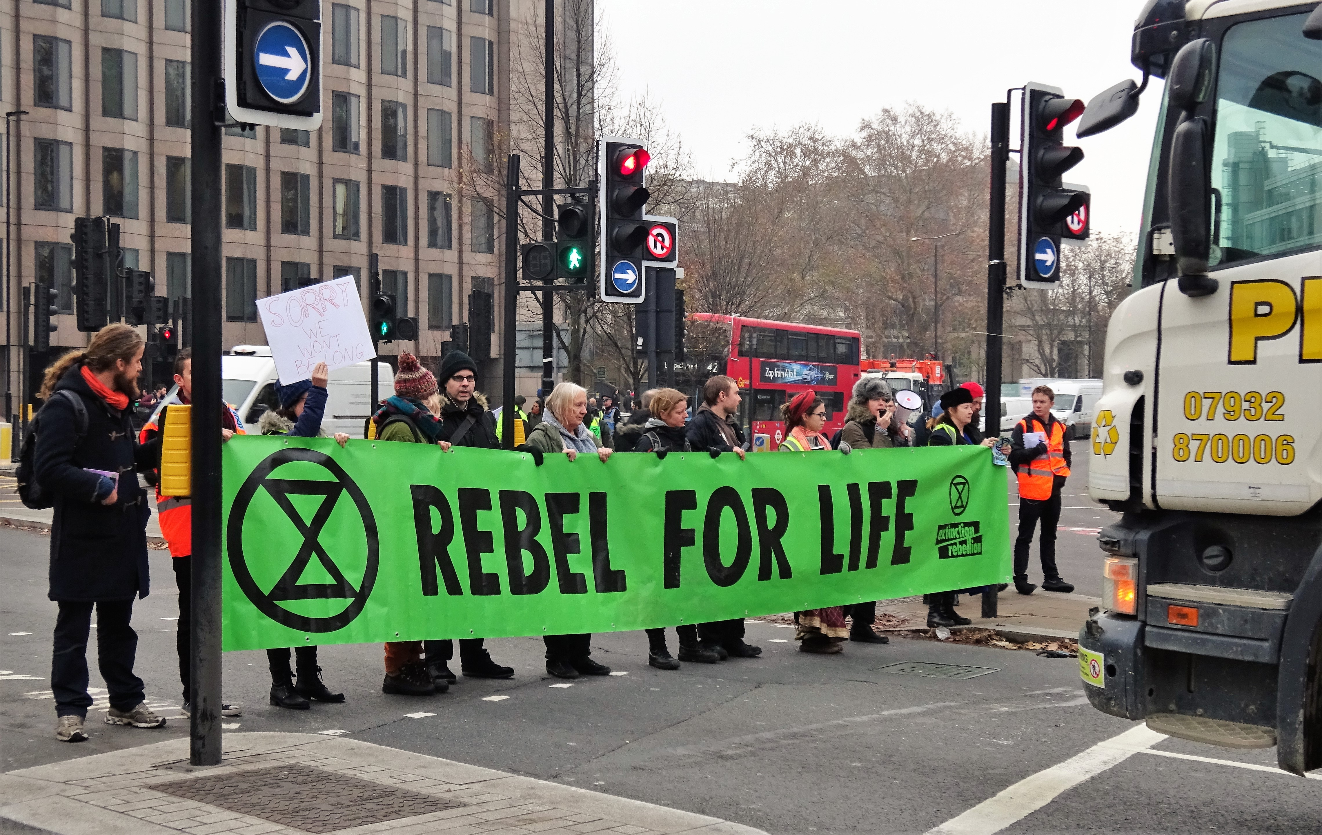 Extinction Rebellion, 'swarming roadblocks' (with banner 'Rebel for life').